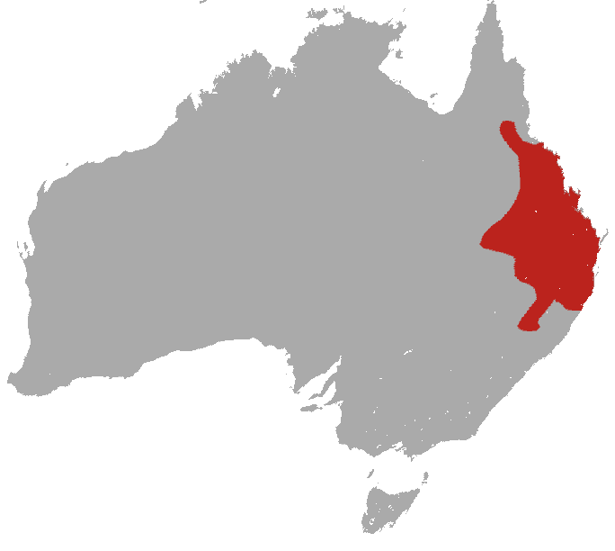 Black-striped Wallaby (Macropus dorsalis) range